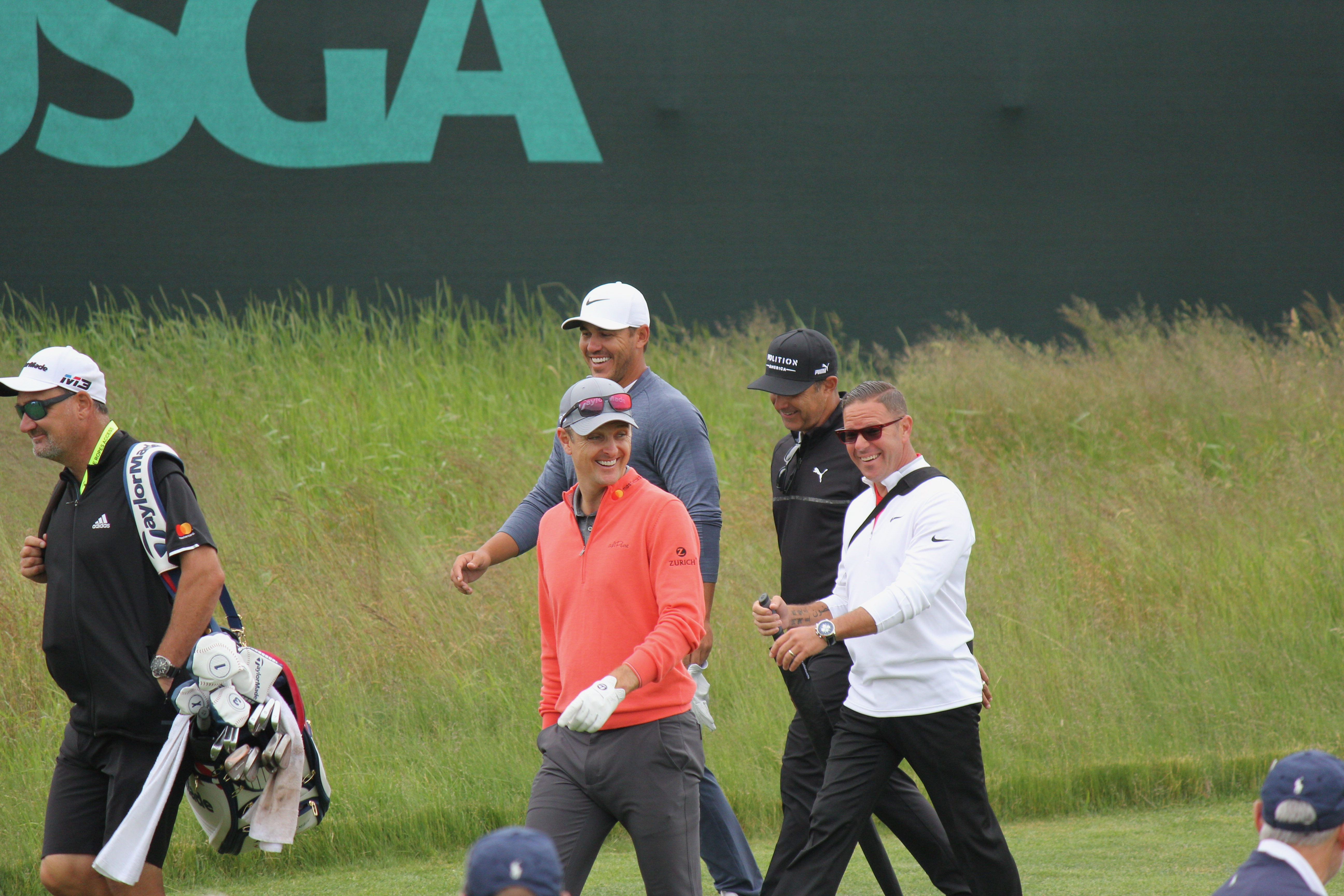 Golfers at the 2018 US Open